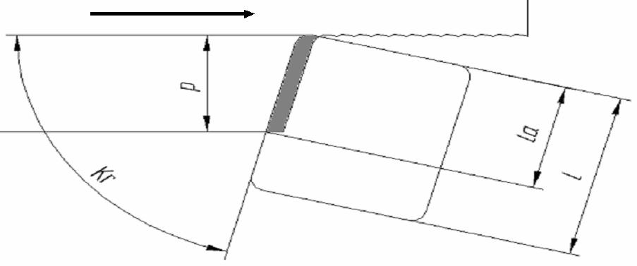 Machining diagram